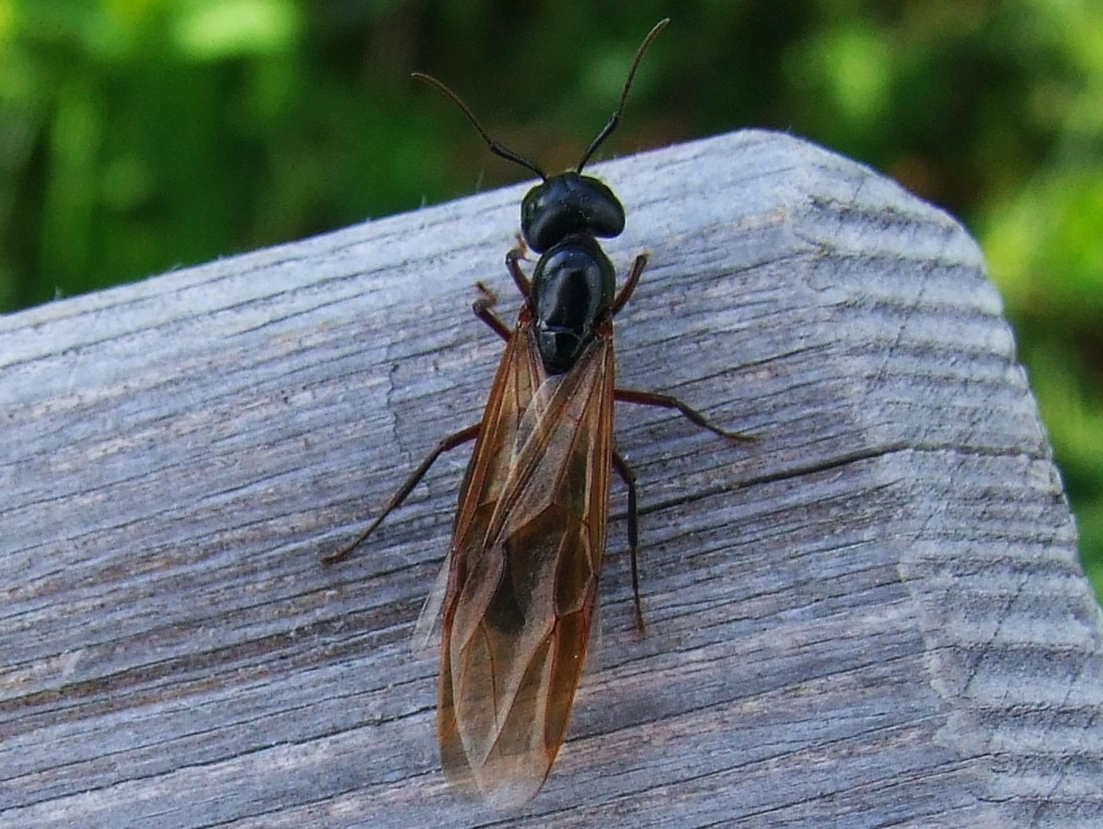 Camponotus herculeanus female